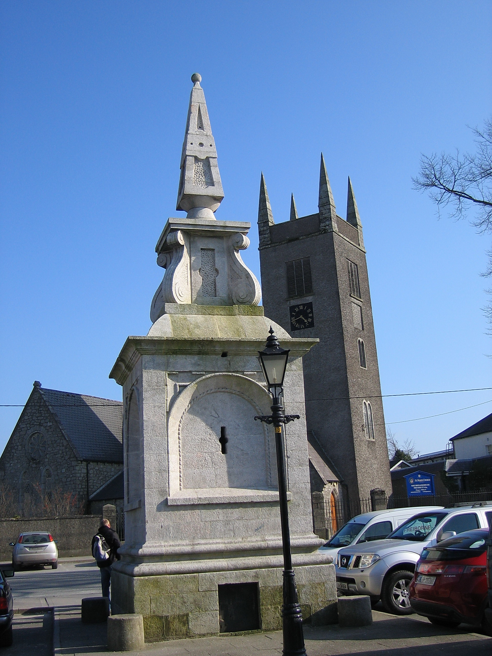 Church and Monument, Main Street